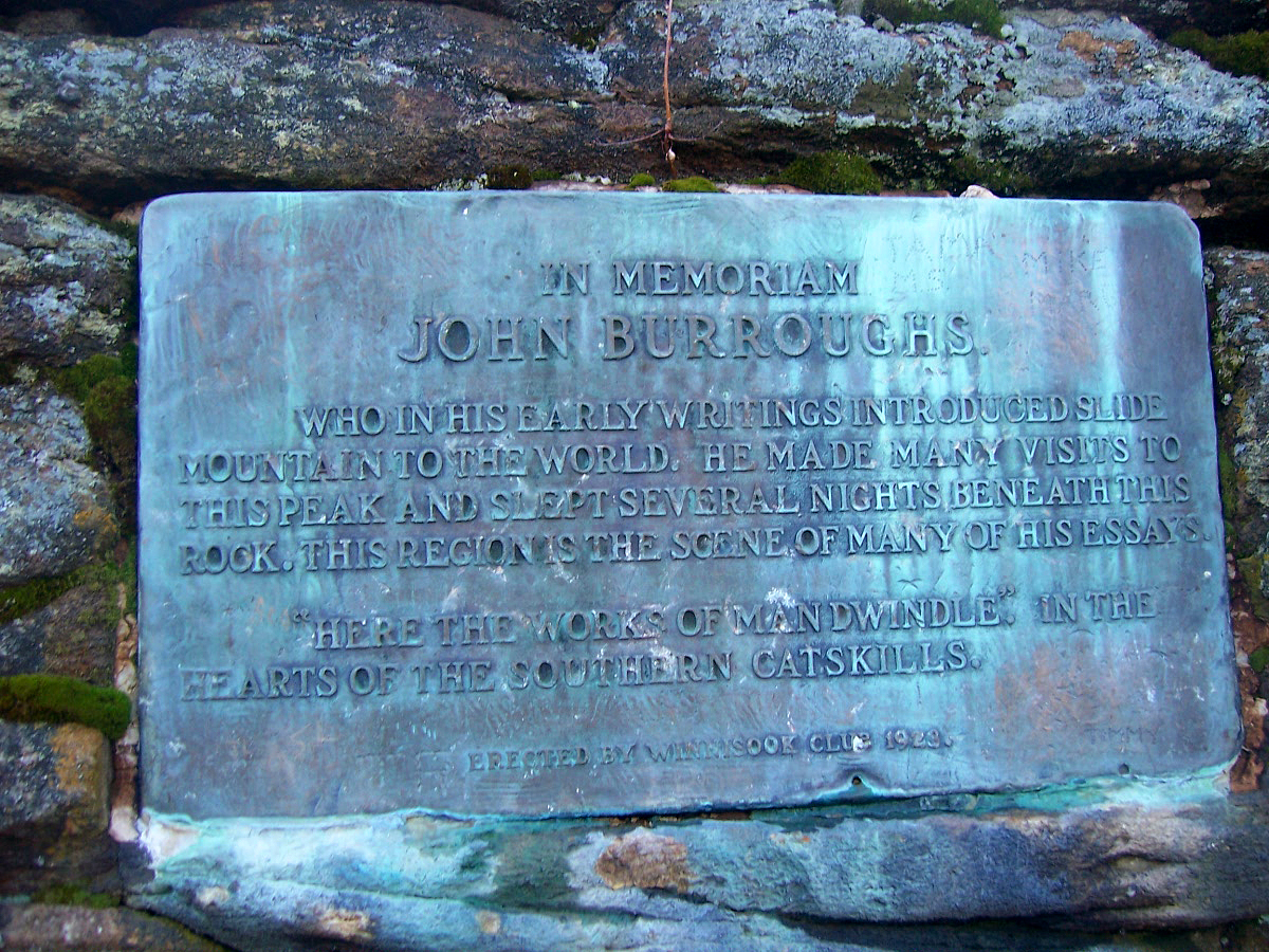 Plaque commemorating climb by John Burroughs to summit of Slide Mountain, highest peak in New York's Catskill Mountains, on ledge below summit. Photographed by Daniel Case 2005-11-12. This replaces an earlier image of lower quality.